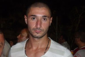 Picture of Terence Scerri.